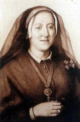 María Micaela Desmaisières (1809-1865), Foundress Adoratrices Handmaids of the Blessed Sacrament and of Charity